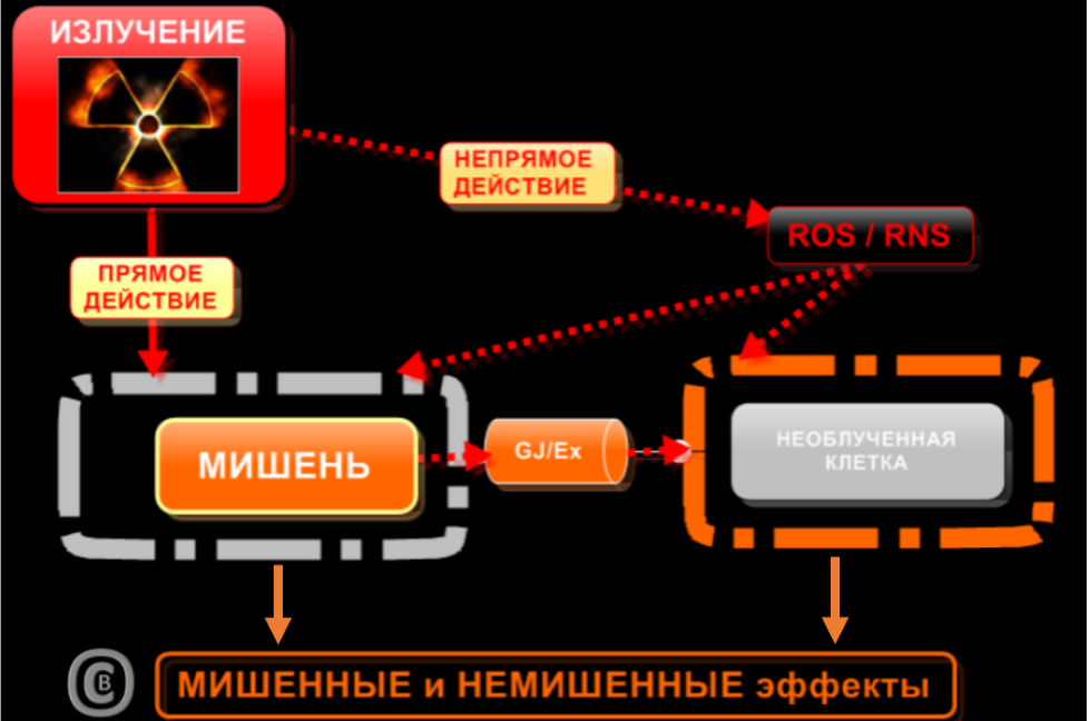 Target and non-target effects of ionising radiation that occur after direct and/or indirect impact on irradiated and bystander cells. (ROS-active forms of oxygen, RNS-reactive forms of nitrogen, GJ-slit contacts, Ex-exosomesm)